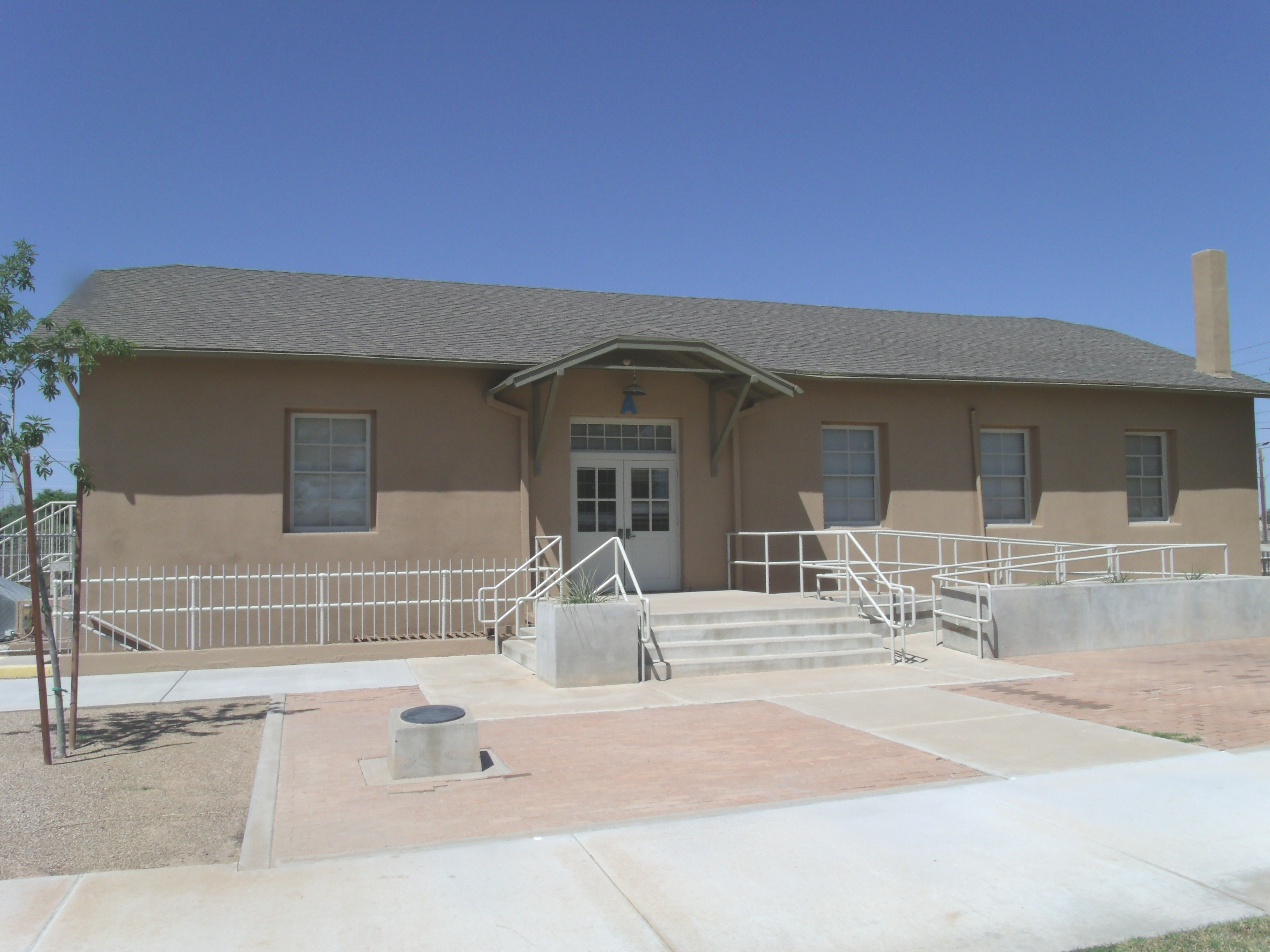 The Laveen School Auditorium was built in 1925 and is located at 5001 W. Dobbins Road in Laveen, an urban village within the city of Phoenix, Az. The building was listed in the National Register of Historic Places on August 30, 2011, reference #88001601.